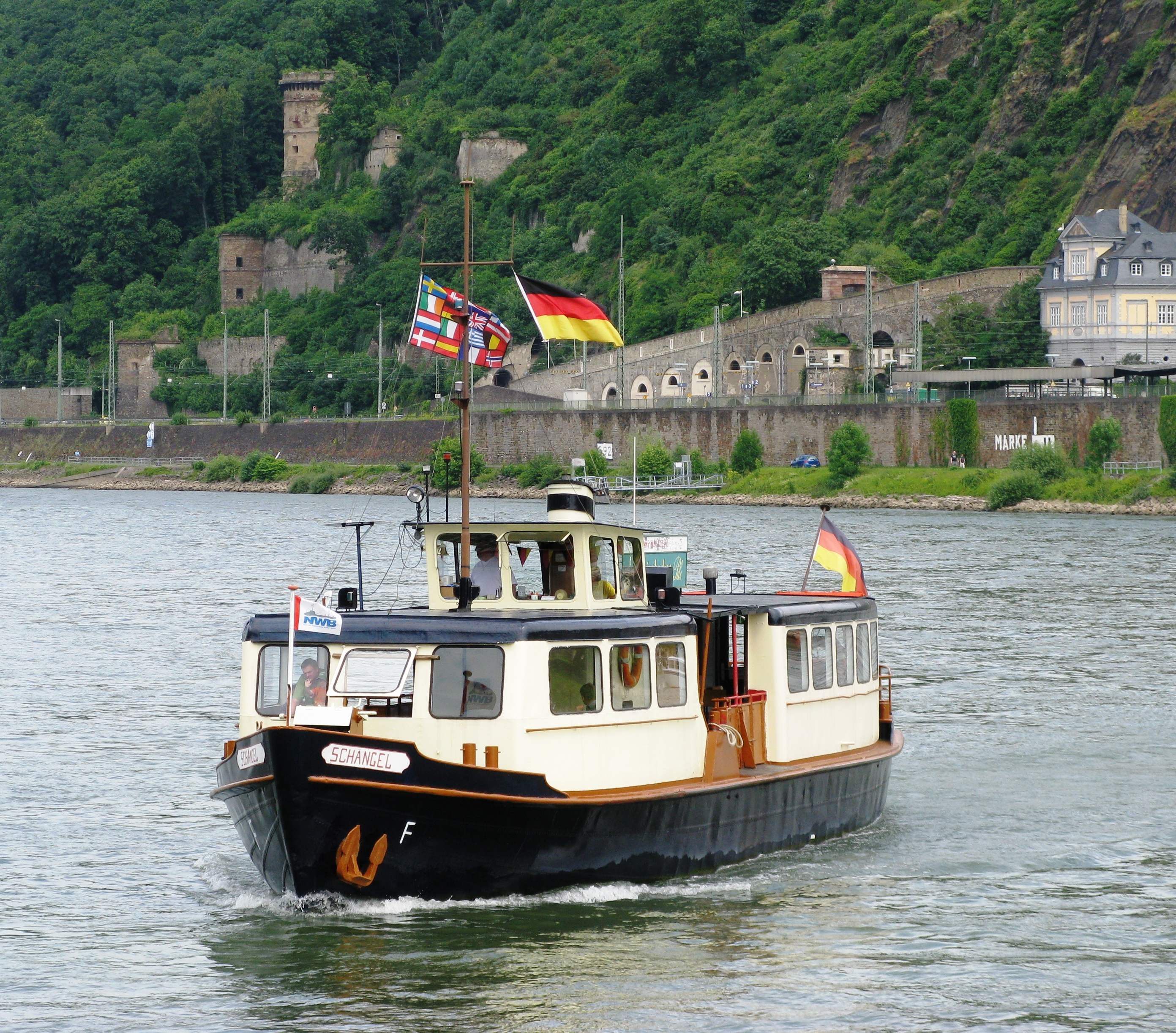 Rhine ferry "Schängel" in Koblenz